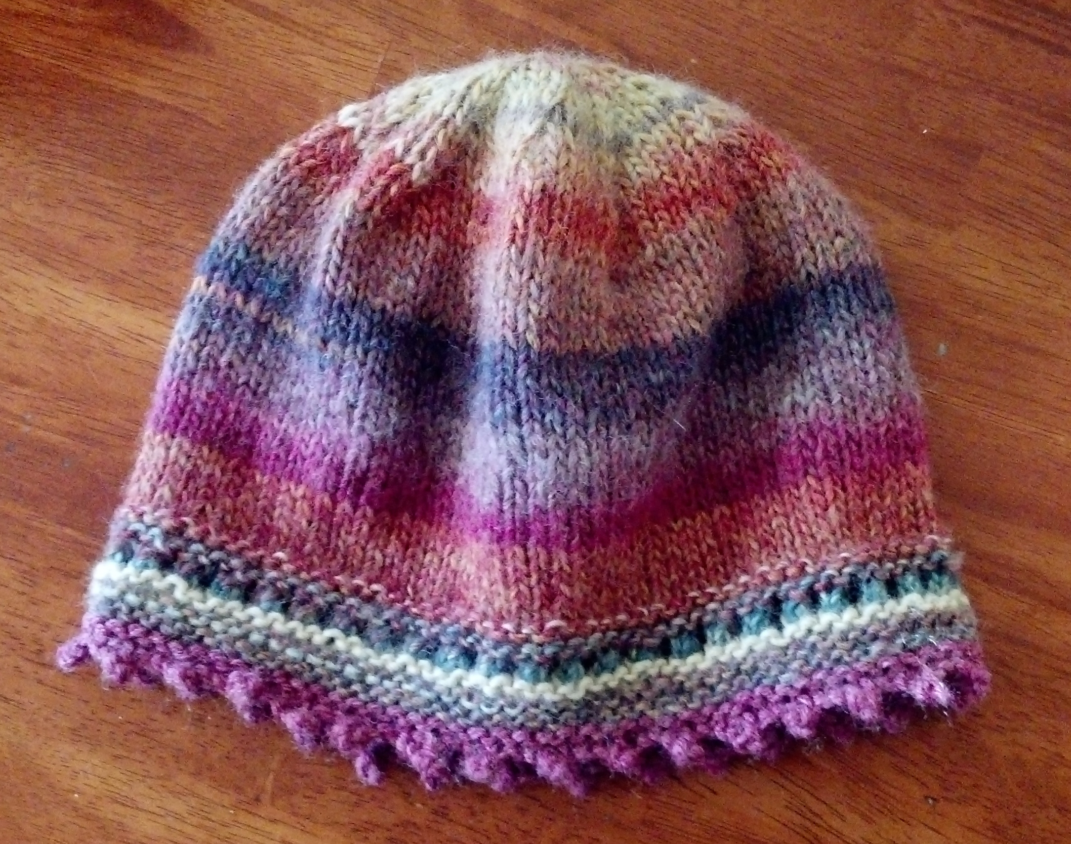 Knitted beanie using Lion Brand yarn.